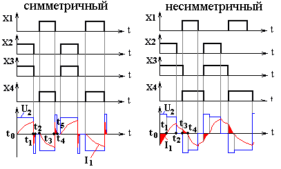 Derevenets_Сим несим мост